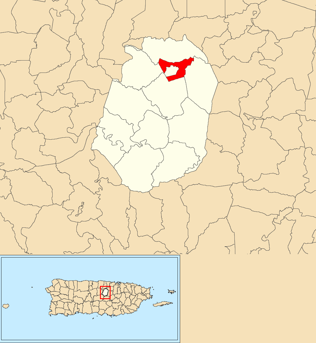 Pueblo, Corozal, Puerto Rico locator map